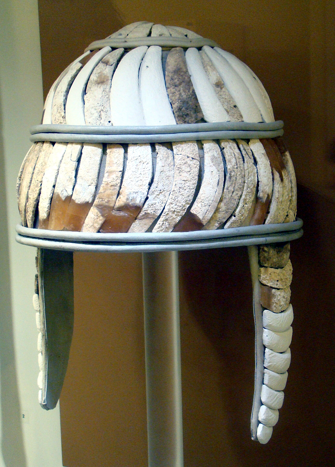 Leather helmet covered with two rows of boar's tusks from the tomb at Katsambas. Herakleion Archeological Museum